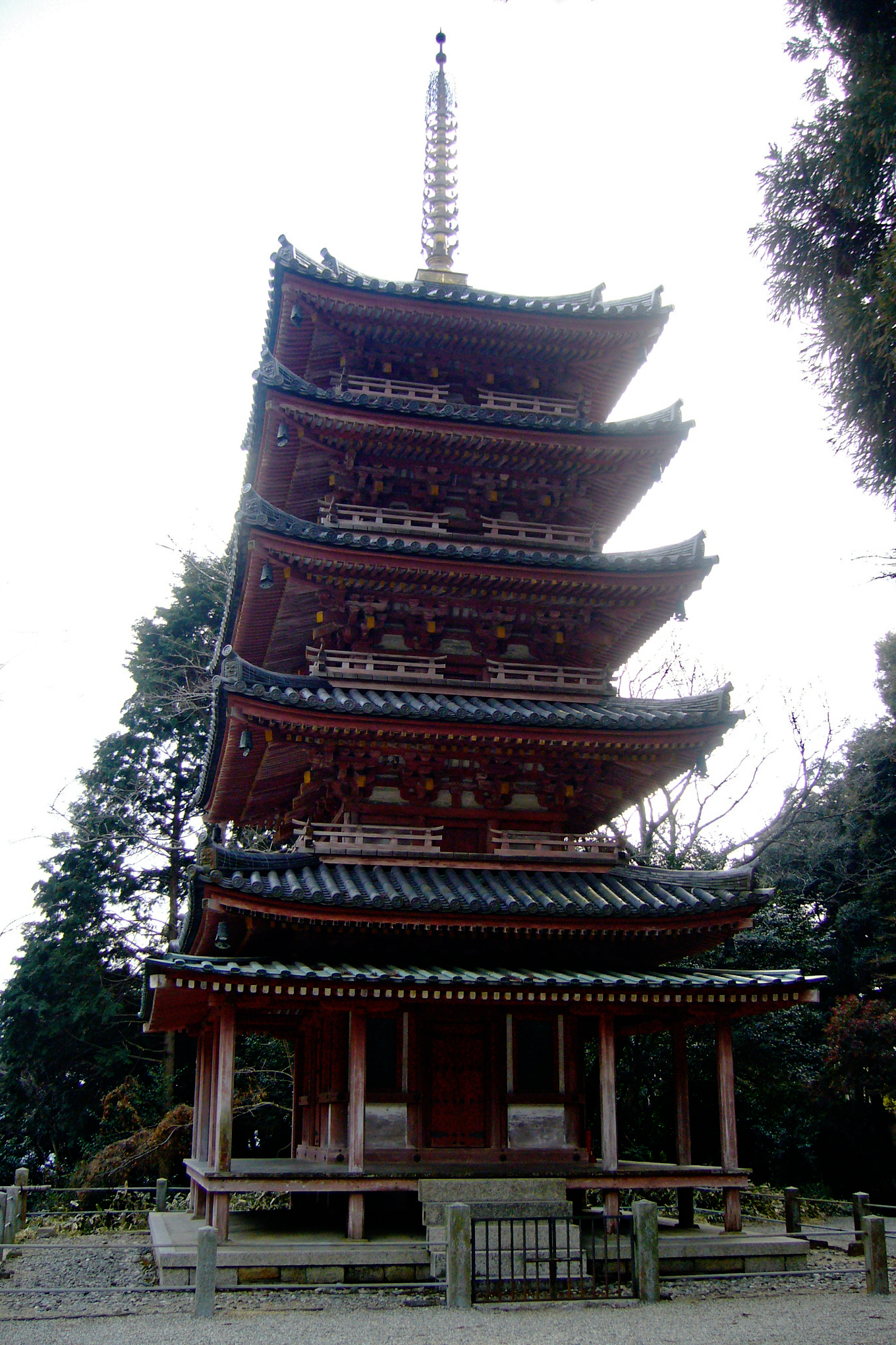 Kaijūsen-ji's Five-storied Pagoda is a Japan's National Treasure in Kamo, Soraku-gun, Kyoto prefecture, Japan It was built in 1214.